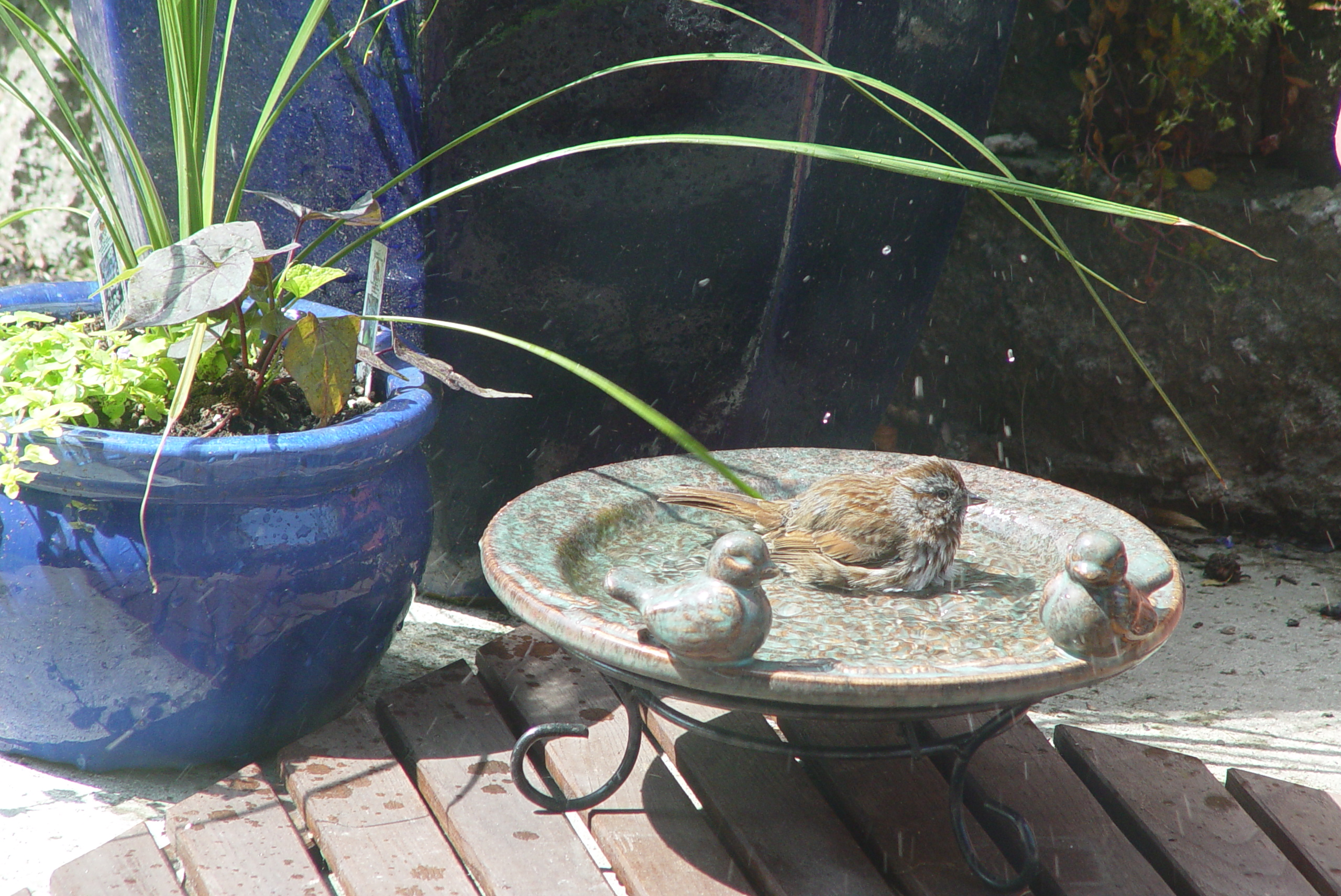 Unidentified bird in a bird bath